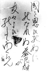 Death poem by Kuroki Hiroshi, a Japanese soldier who died in a submarine accident on September 7 1944. Text reads 「国を思ひ死ぬに死なれぬ益良雄が 友々よびつ死してゆくらん」 Kuni wo omoi shinu ni shinarenu masurao ga, tomodomo yobitsu shishite yukuran This brave man, so filled with love for his country that he finds it difficult to die, is calling out to his friends and about to die.